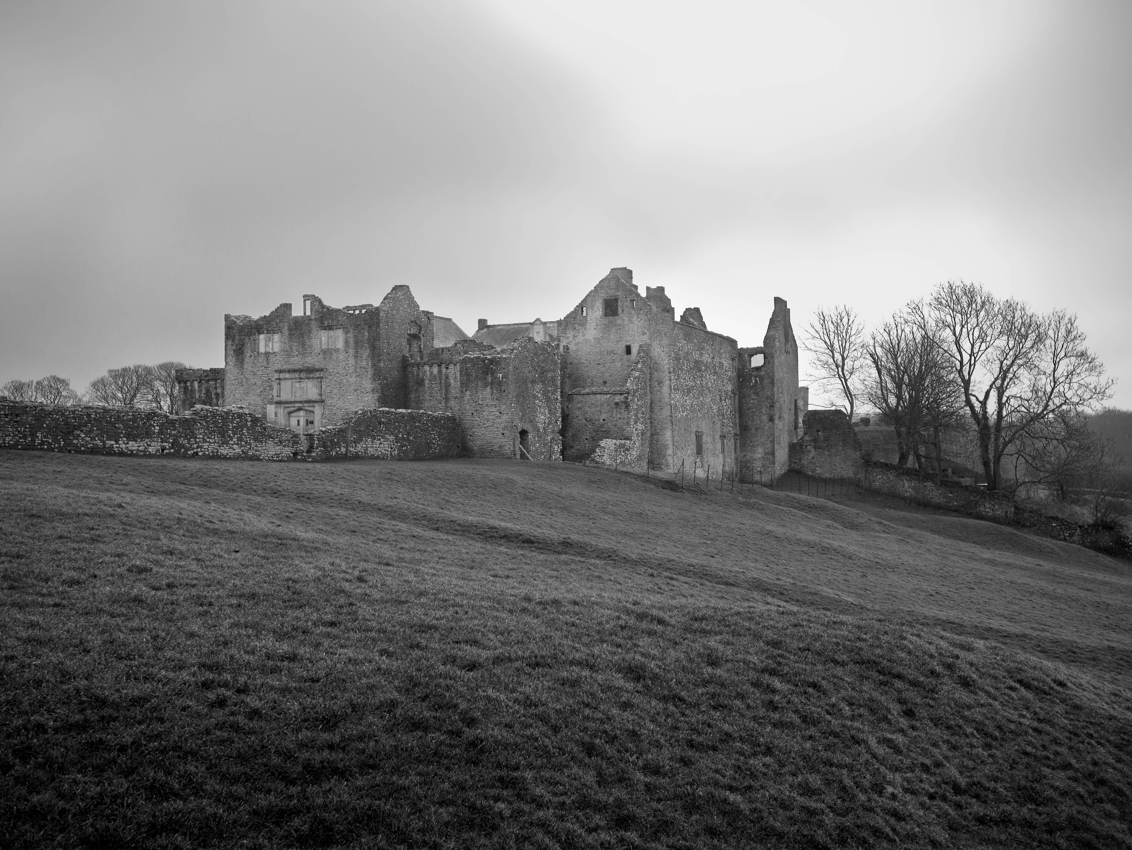 Old Beaupre Castle in Vales of Glamorgan